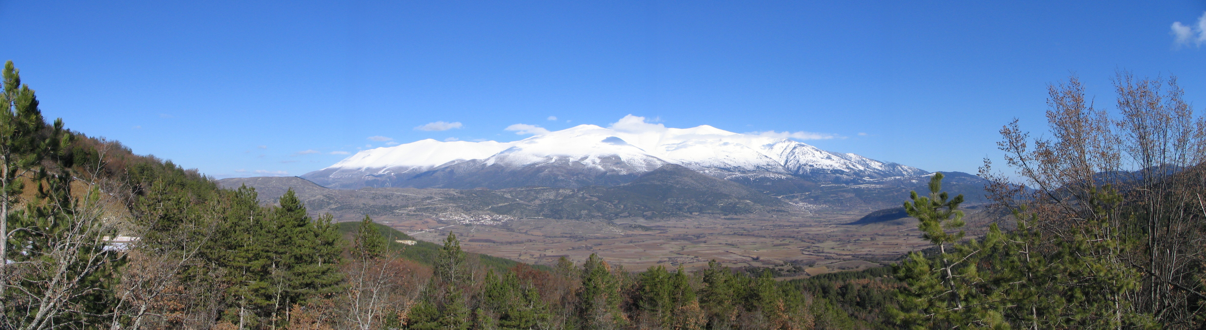 Mount Olympus South Peaks on a wide view.